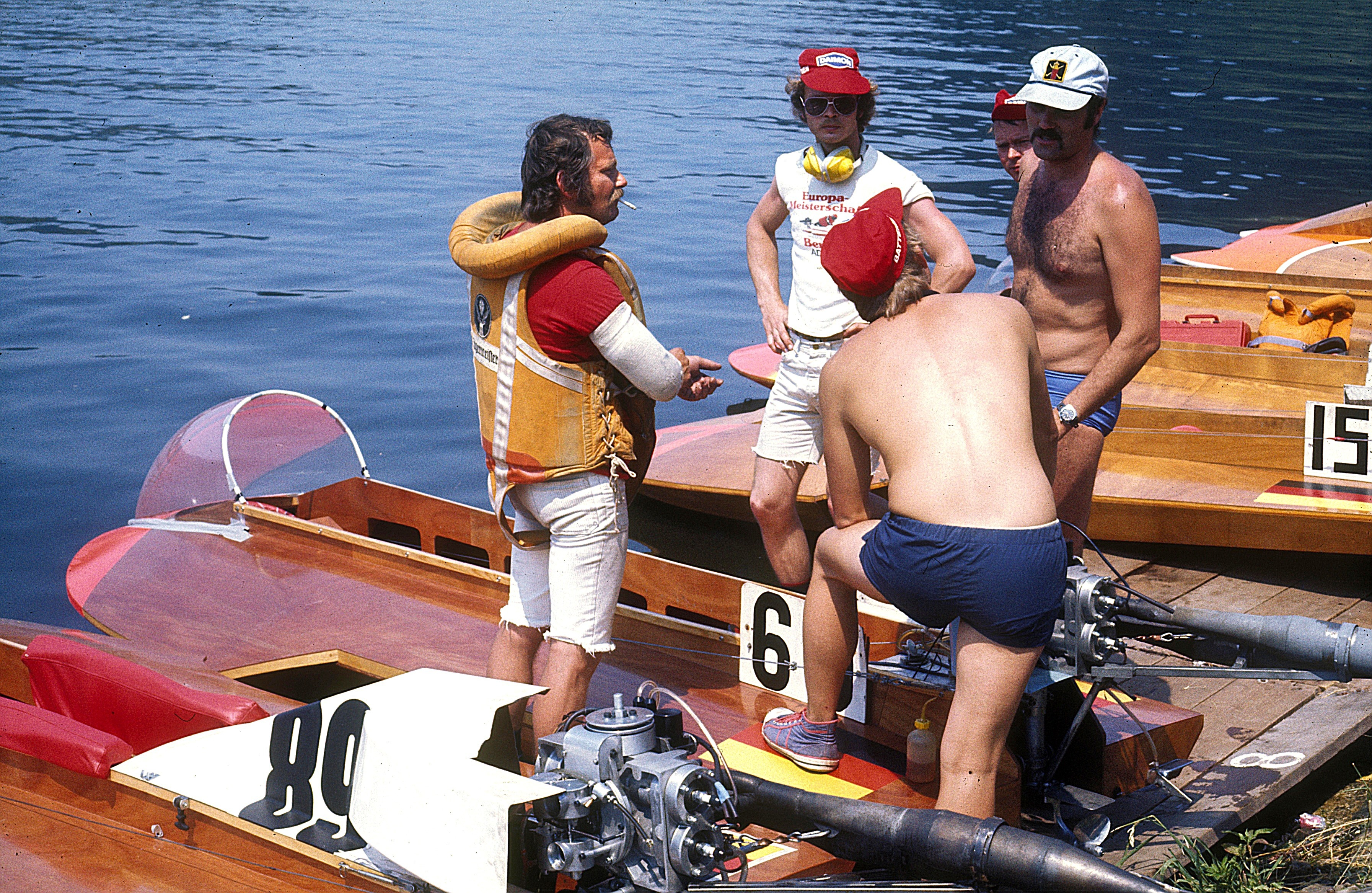 Kurt Mischke (left), one of the best German racing boat drivers, world champion 1968 and 1976 in the class 350 cc, decorated with the Silver Laurel Leaf in 1967. Mischke died in 2009 when he was 72 years old.